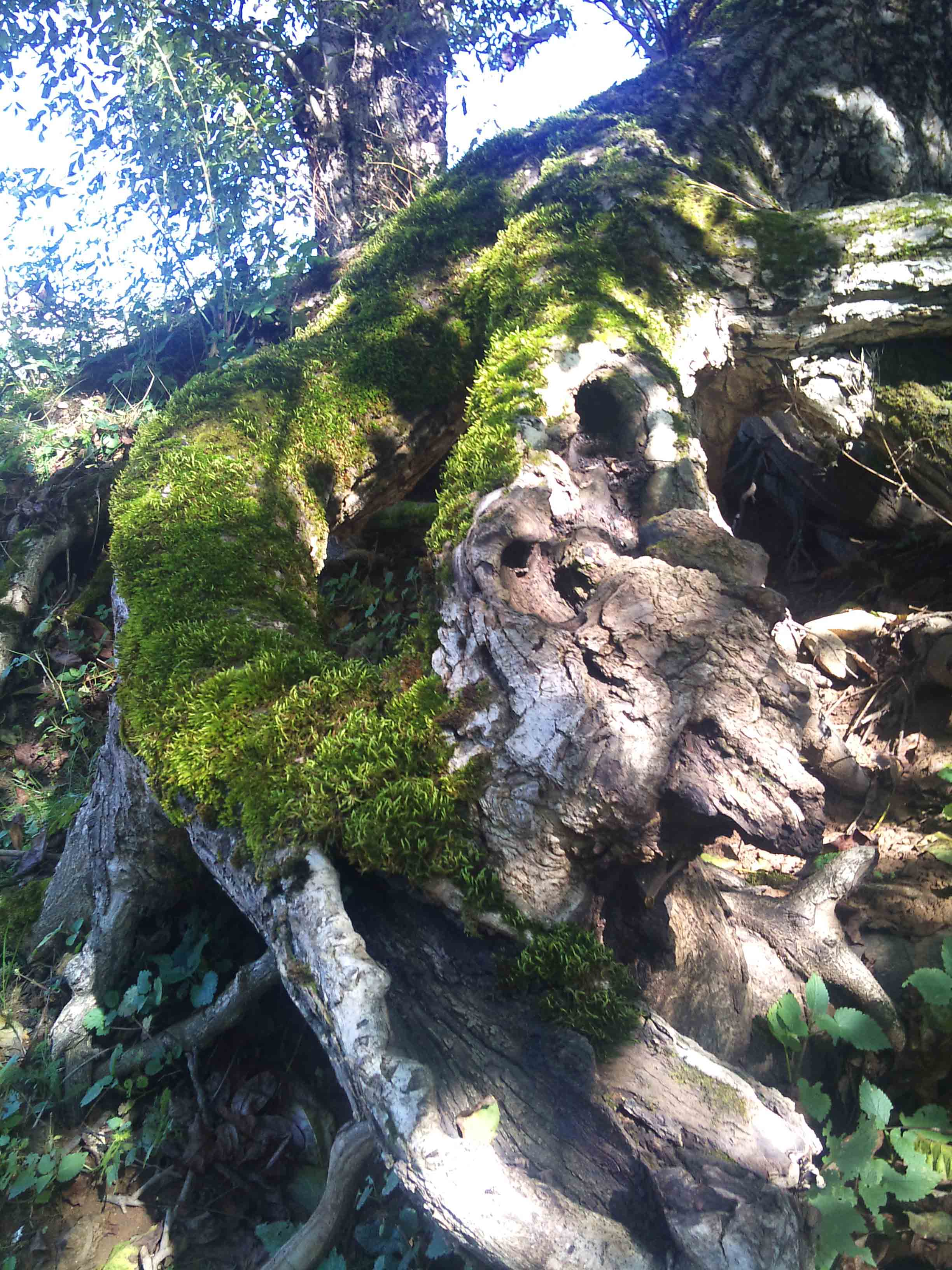 Big old tree roots that are left out of the soil.